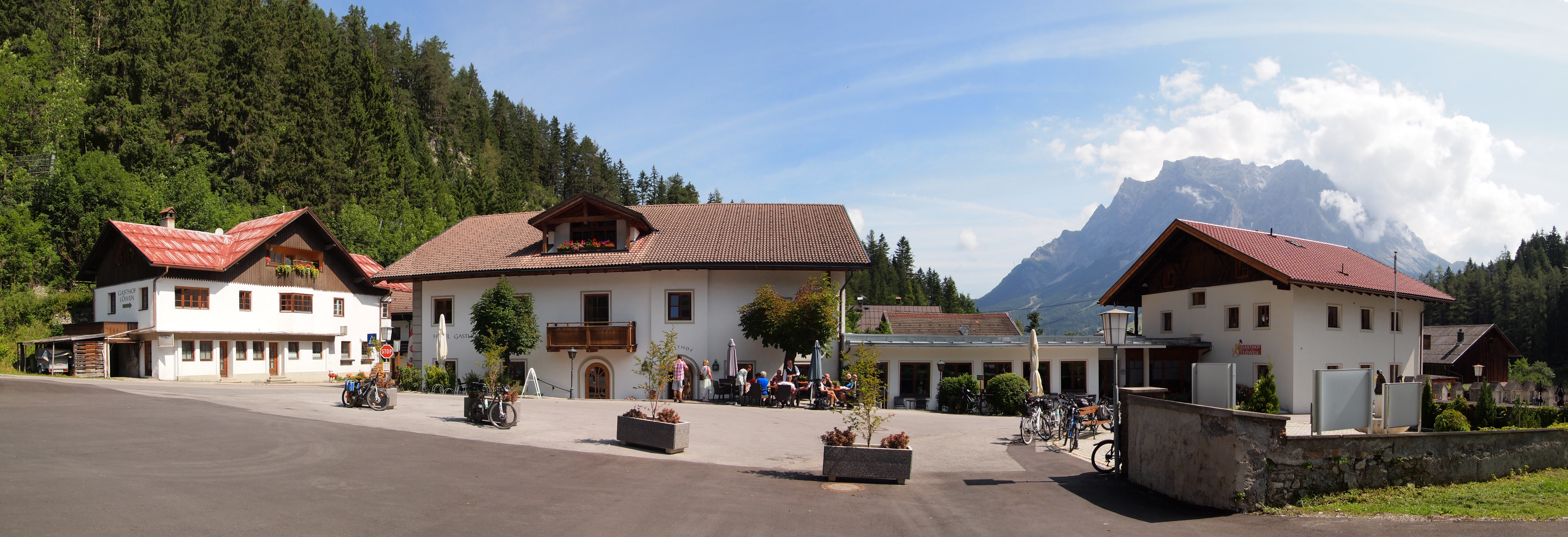 Kirchplatz in Biberwier, Austria. This photograph was taken with an Olympus E-PL1